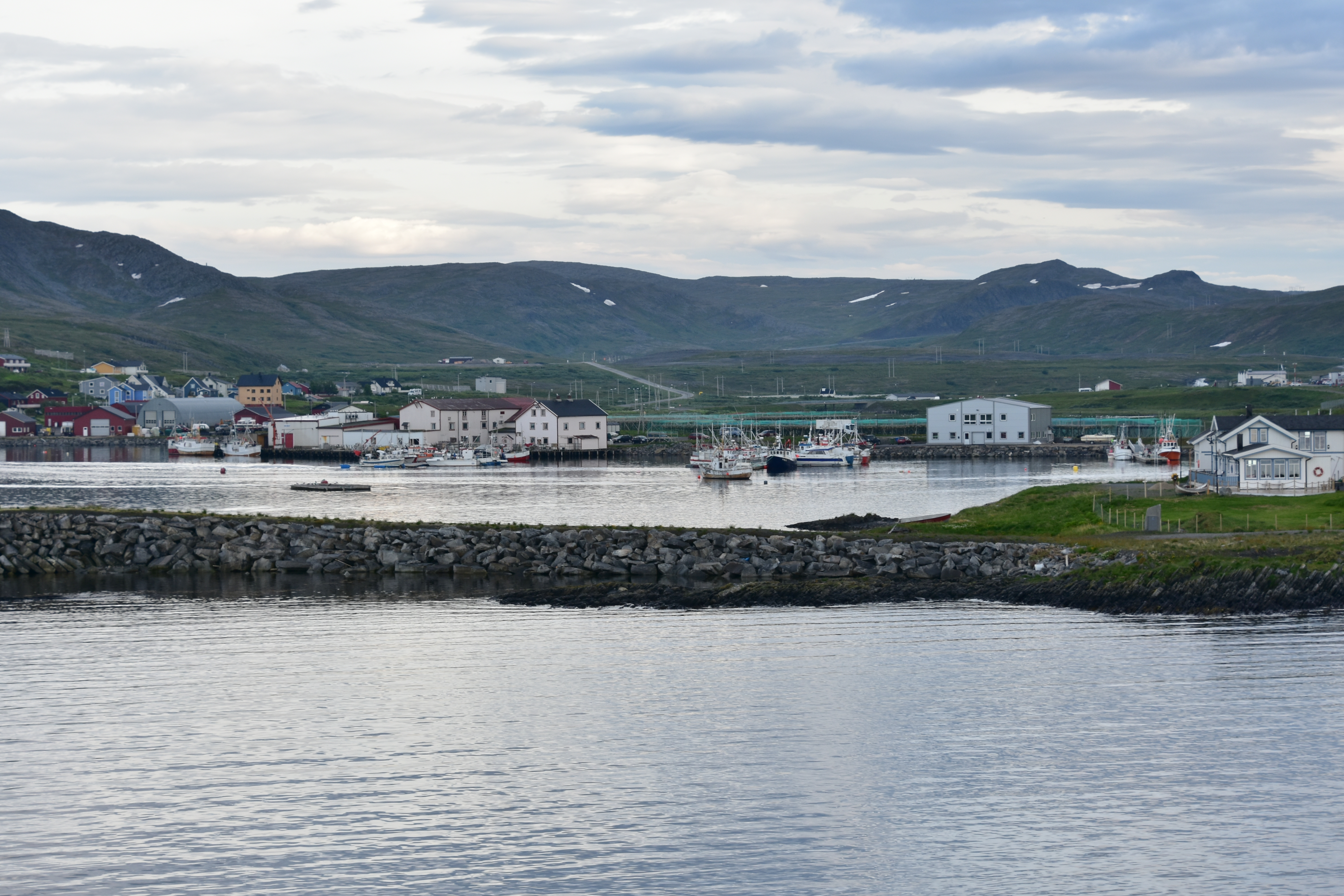 Mehamn, far northern Norway (3)